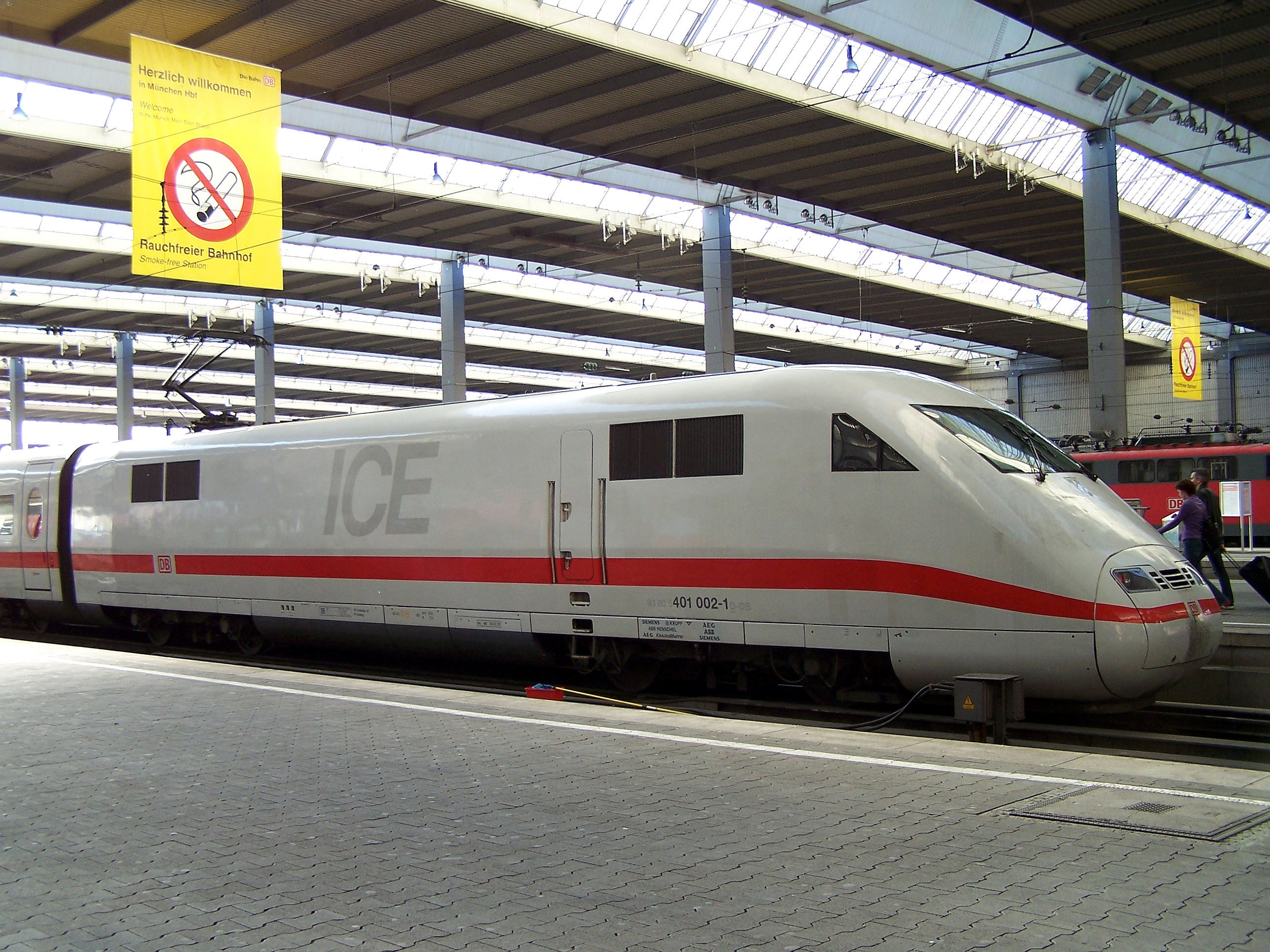 ICE 1 power car 401 002 in Munich-Hauptbahnhof